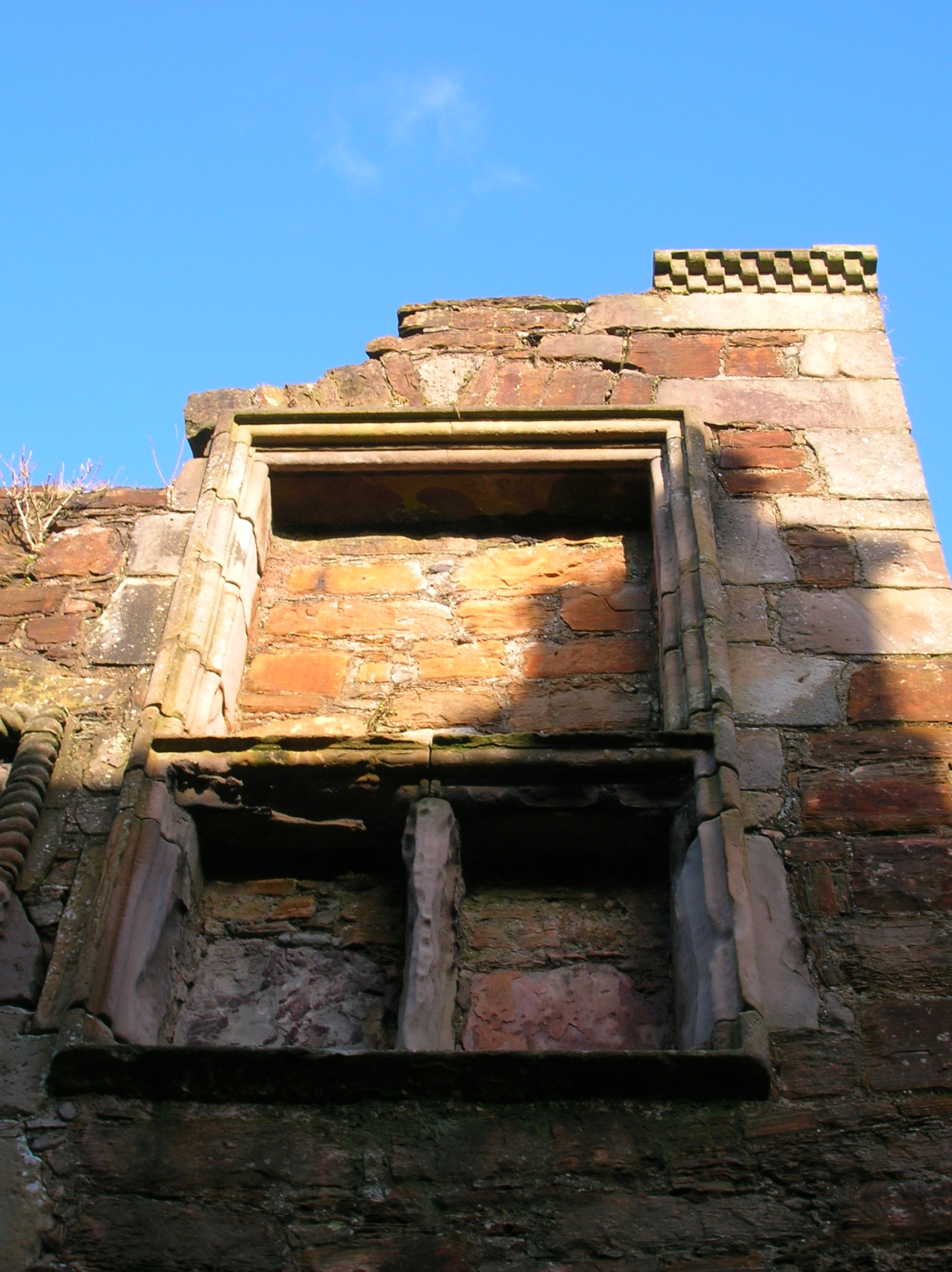 Seagate Castle, moulded window, Irvine. North Ayrshire, Scotland.